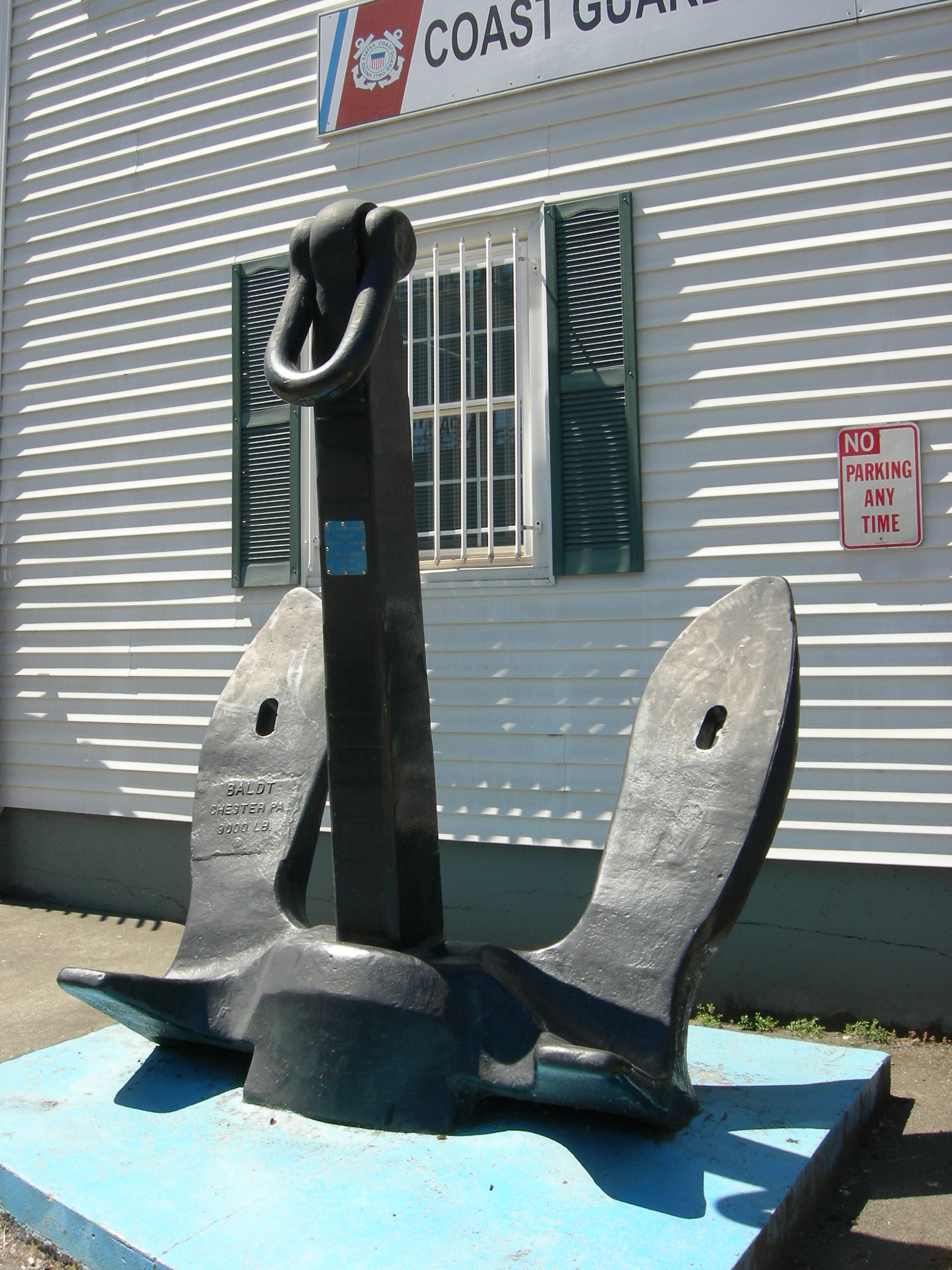 Anchor on sidewalk in front of Coast Guard Museum Northwest, Pier 36 on the Lower Duwamish waterfront, Seattle, Washington.